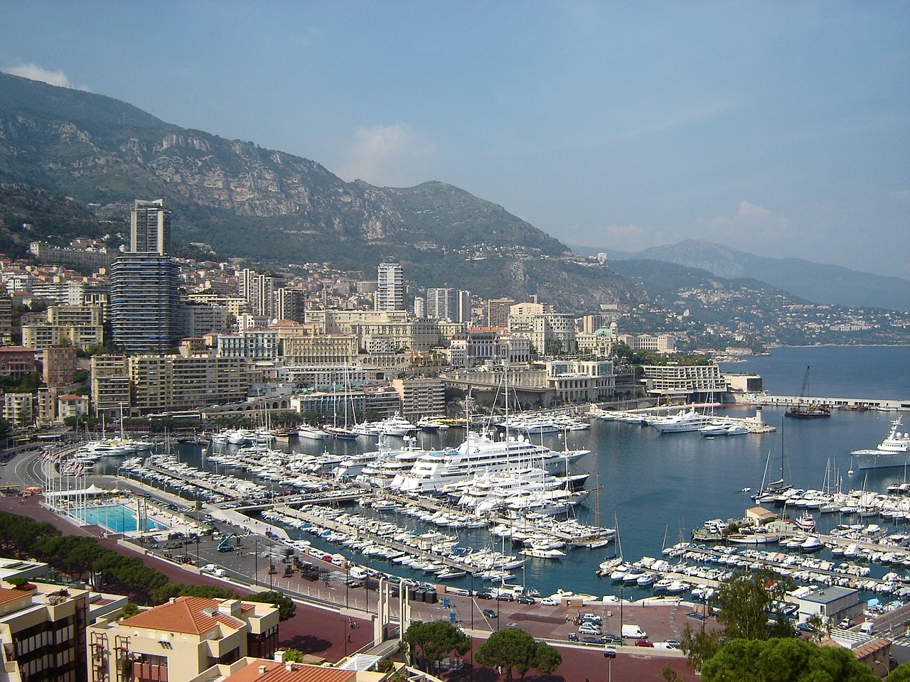 Monaco, France. View from the Palace Square